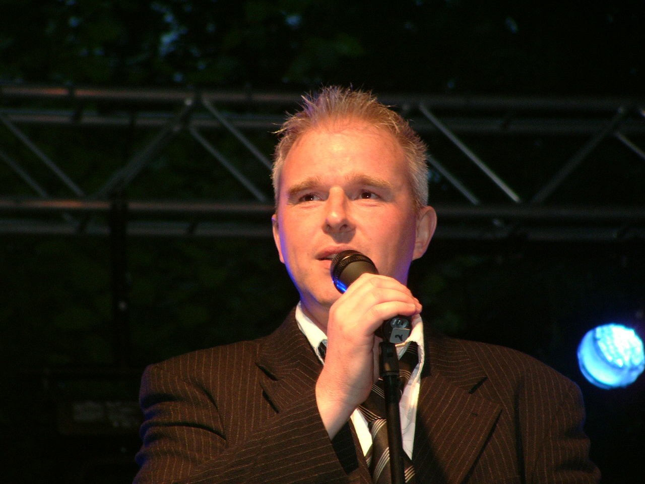 picture of actor Mark Tijsmans